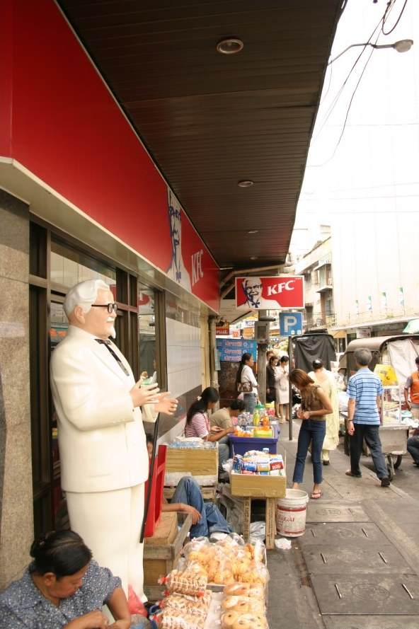 KFC shop in Bangkok, Thailand. Author: me, Paul Vlaar Date: 2004-03-18 Cropped slightly by Ali'i on 17:04, 10 June 2008 (UTC)